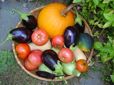 CSA share